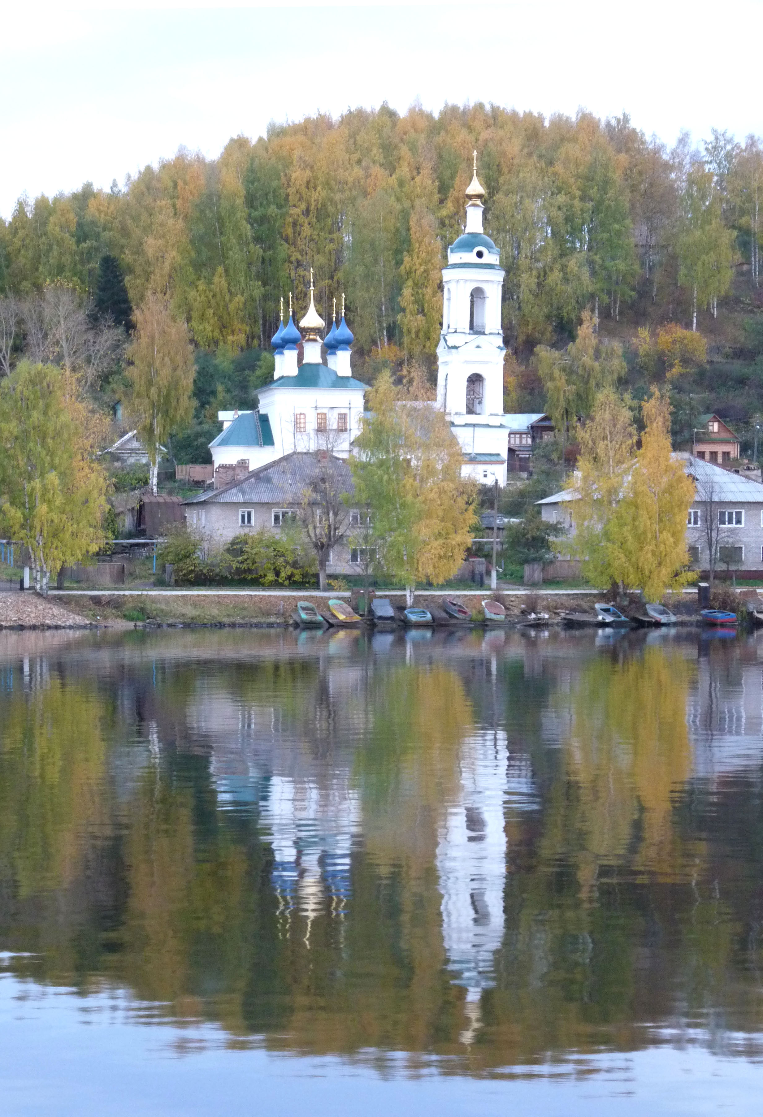 Plios Cathedral of the Assumption 05